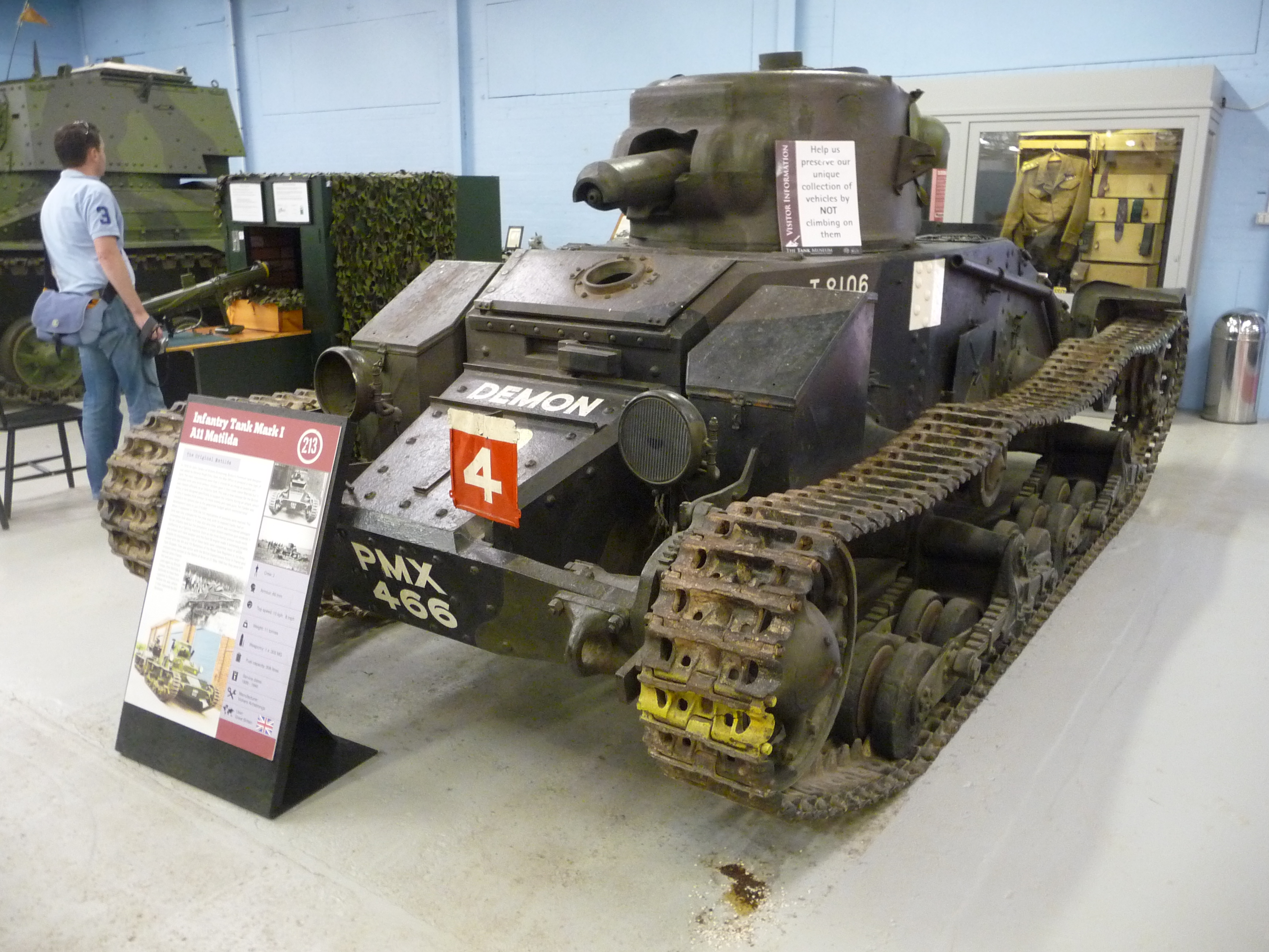 Tank Infantry Mark I A11